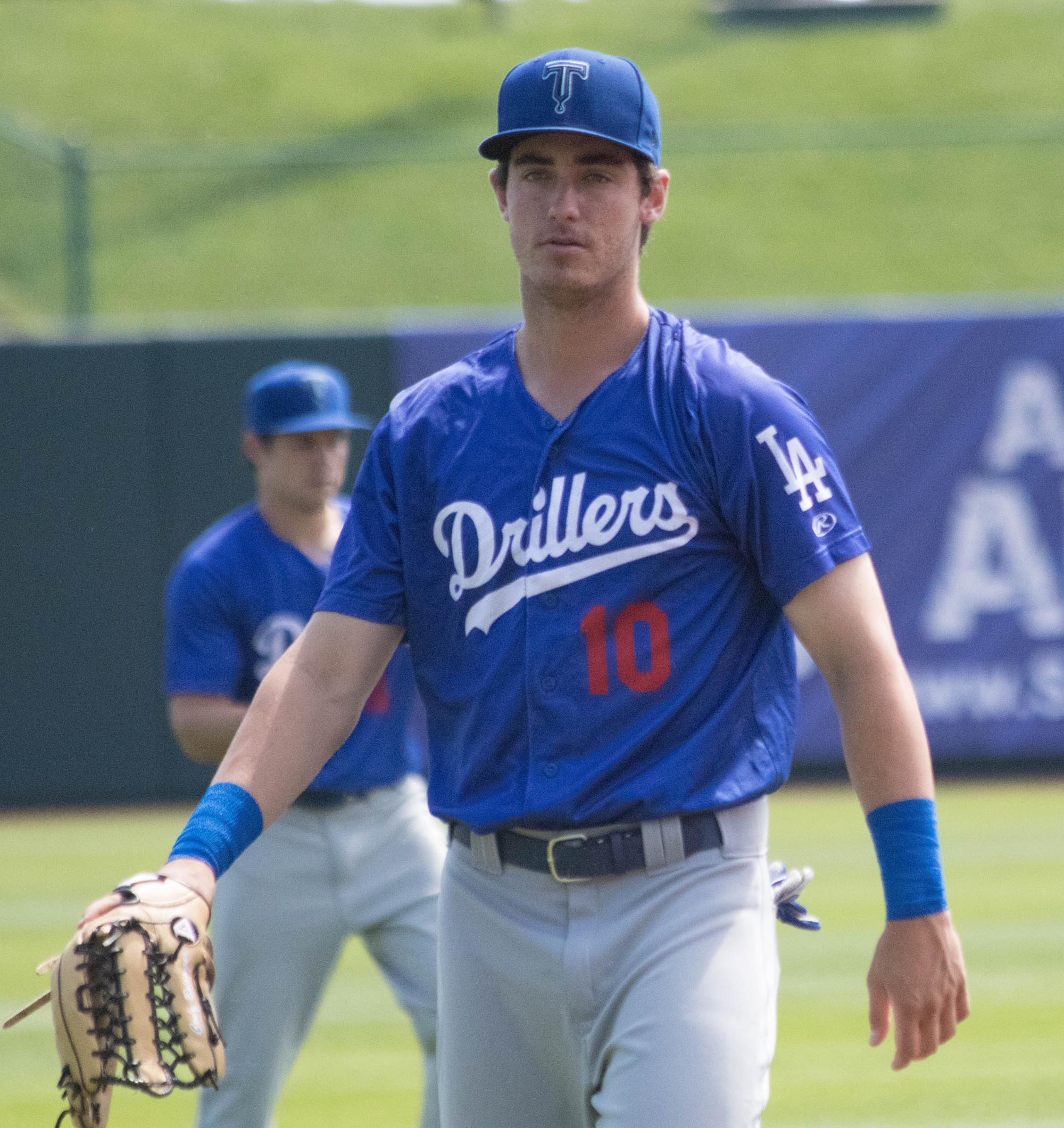 Cody Bellinger as a member of the Tulsa Drillers